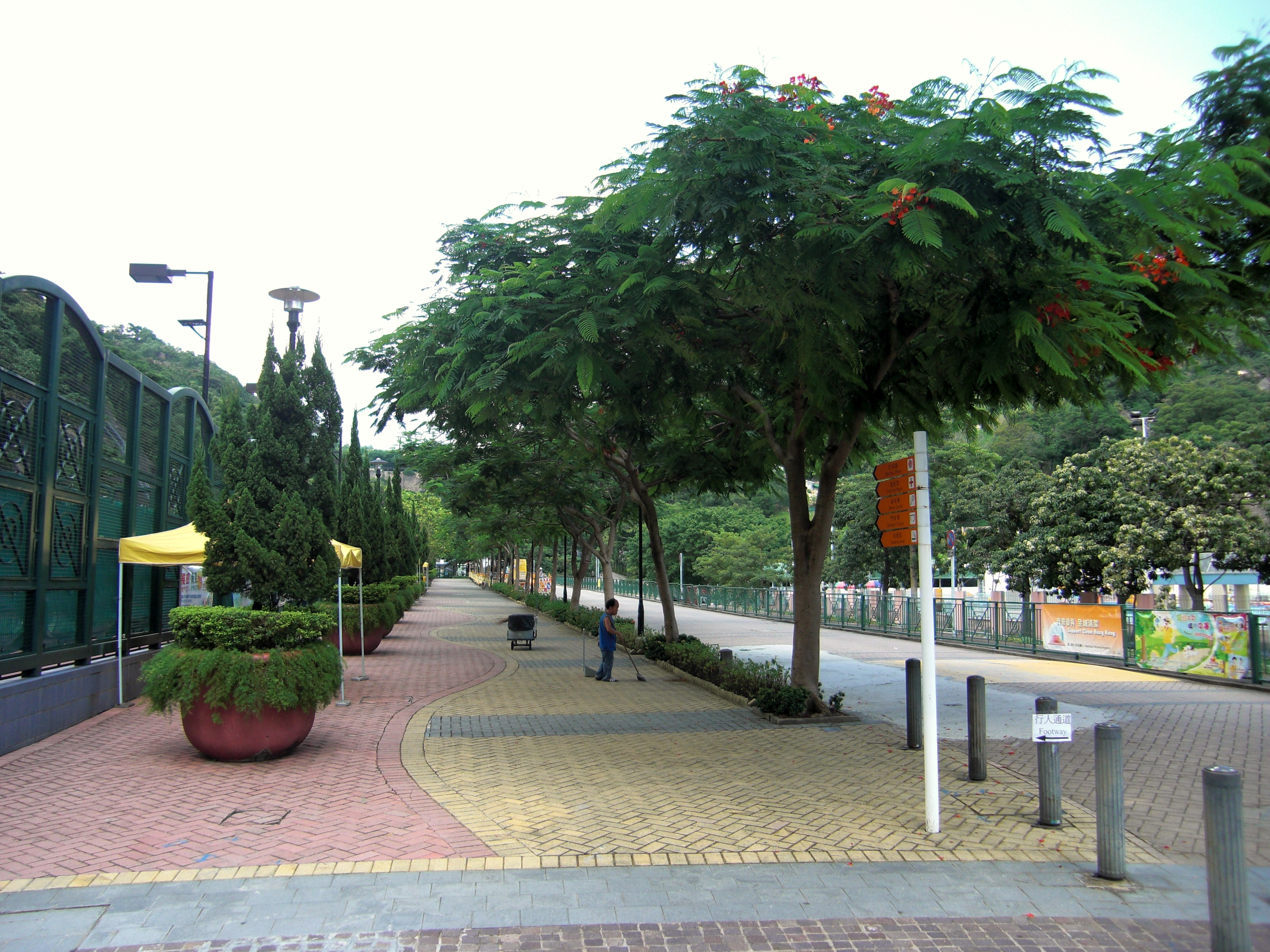 A path in Jordan Valley Playground Phase 2 Site 1 is seen. This path was a part of Jordan Valley North Road in the past.